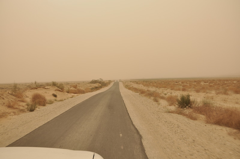 A picture taken during the Sharav-Period in Israel